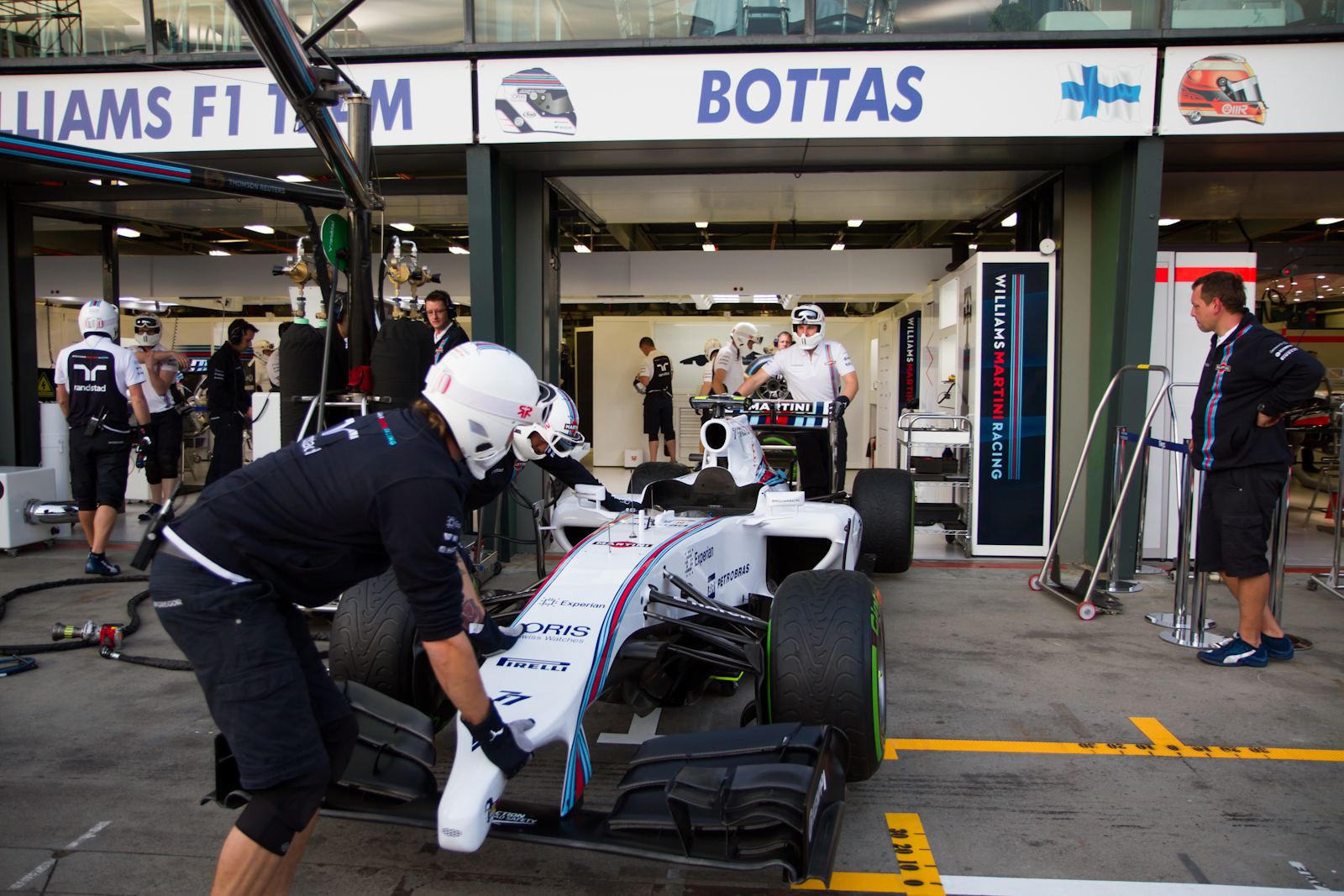 2014 Australian F1 Grand Prix